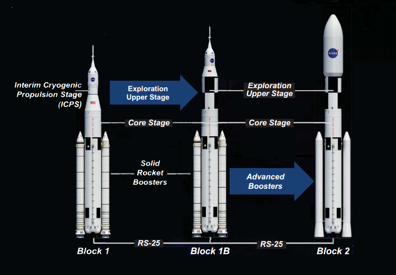 Three versions of SLS being developed c 2015. Modified from original to remove text and correct boosters